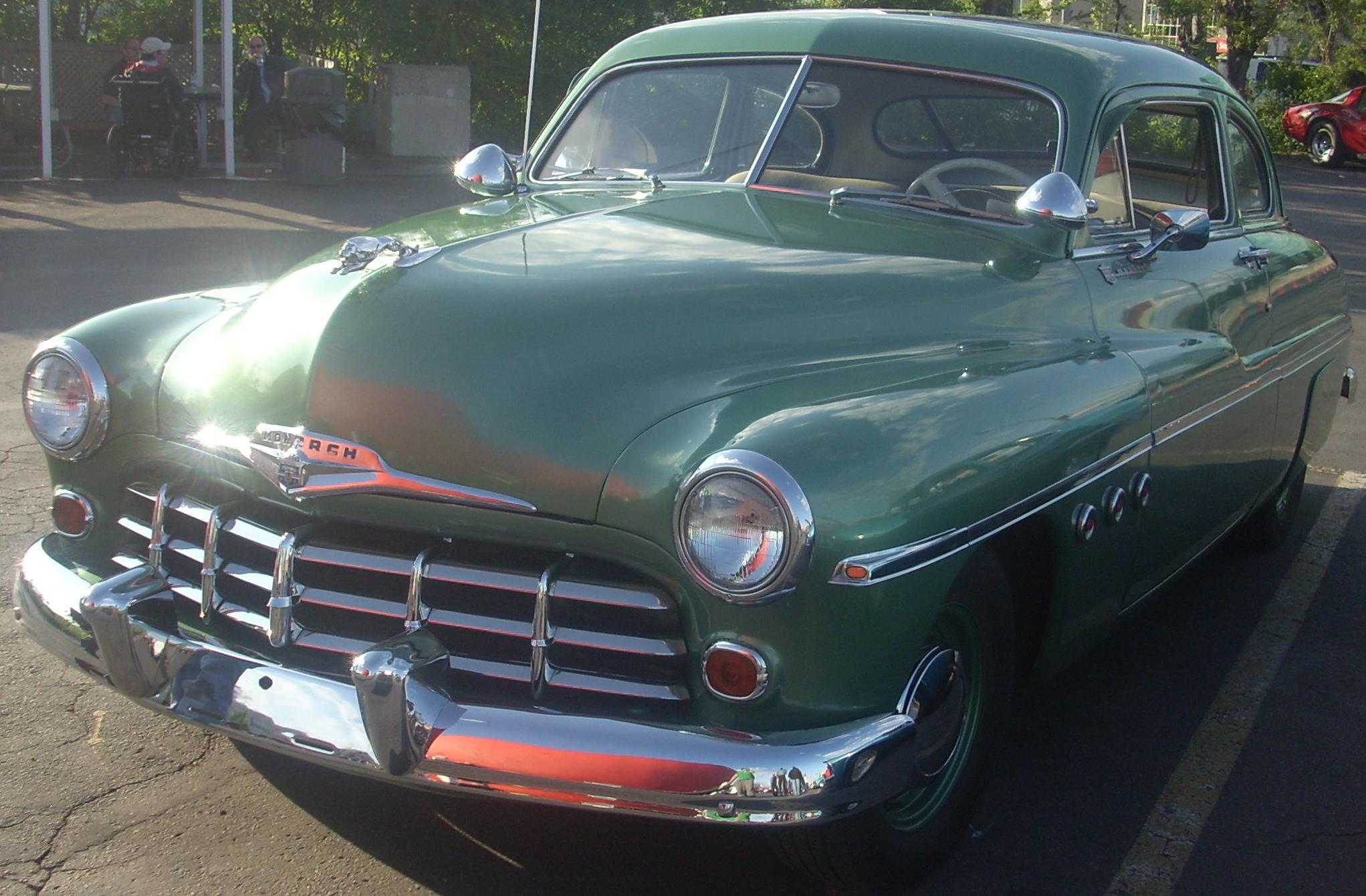 Monarch photographed in Montreal, Quebec, Canada at Gibeau Orange Julep.